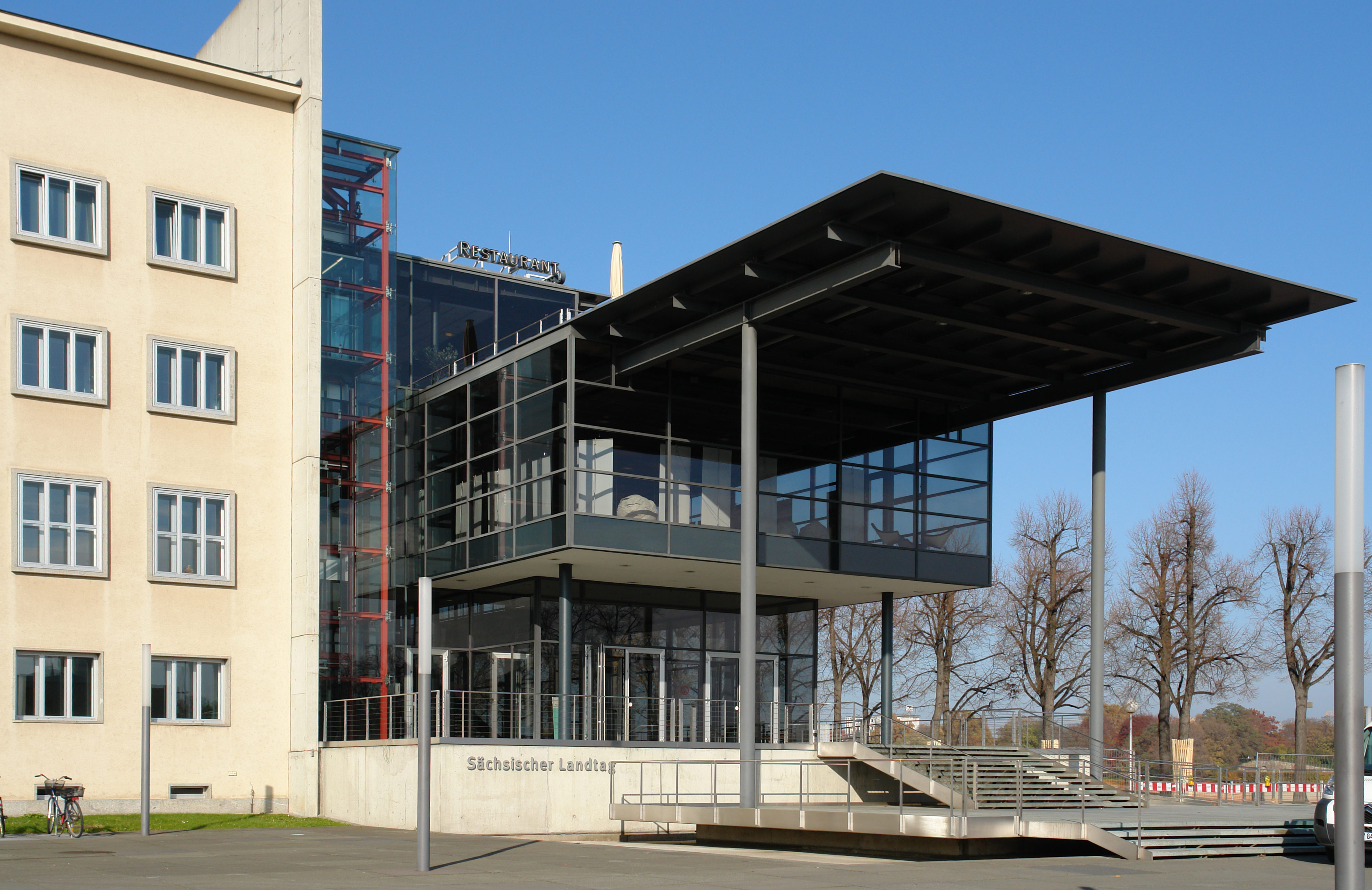 Landtag of Saxony, Dresden, Germany